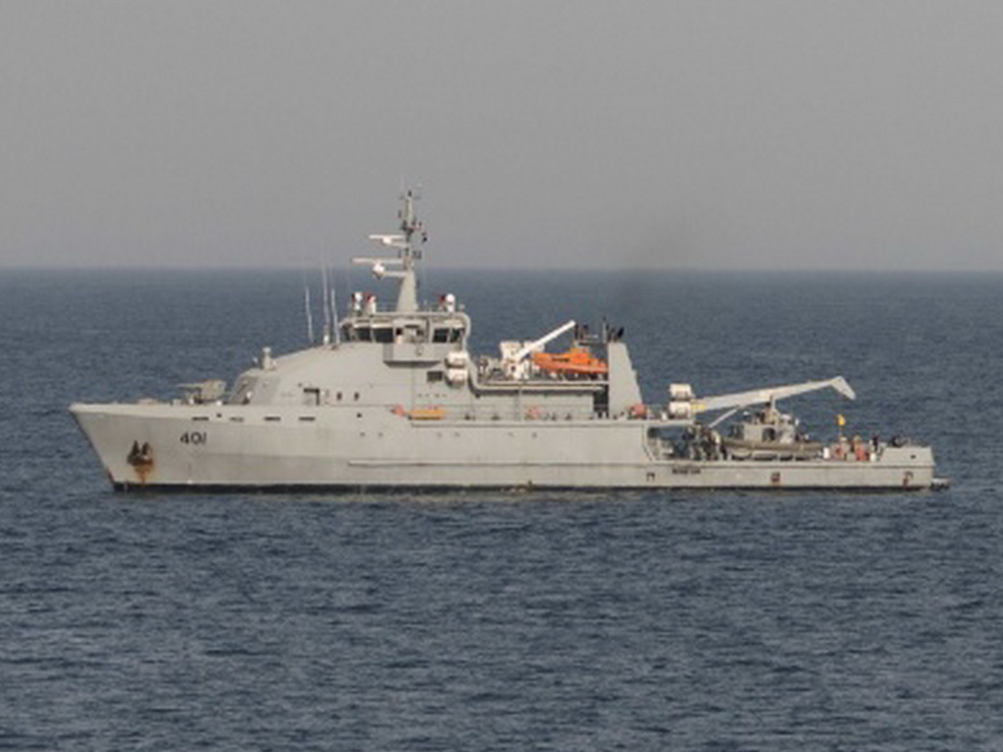 The Iraqi navy Al Basra-class offshore support vessel Al Basra (OSV 401) transit the Arabian Gulf during a Commander, Task Force 55 bilateral exercise. The U.S. participates in bilateral exercises with partner nations routinely to build and strengthen interoperability throughout the region. Commander, Task Force 55 controls surface forces including U.S. Navy patrol crafts and U.S. Coast Guard patrol boats throughout the U.S. 5th Fleet area of operations. (U.S. Navy photo by Mass Communication Specialist 3rd Class Bill Dodge)